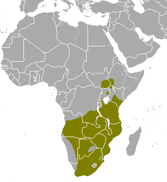 Present range of the common eland (Tragelaphus oryx) according to IUCN SSC Antelope Specialist Group 2008. Tragelaphus oryx. In: IUCN 2011. IUCN Red List of Threatened Species. Version 2011.2. . Downloaded on 05 May 2012.